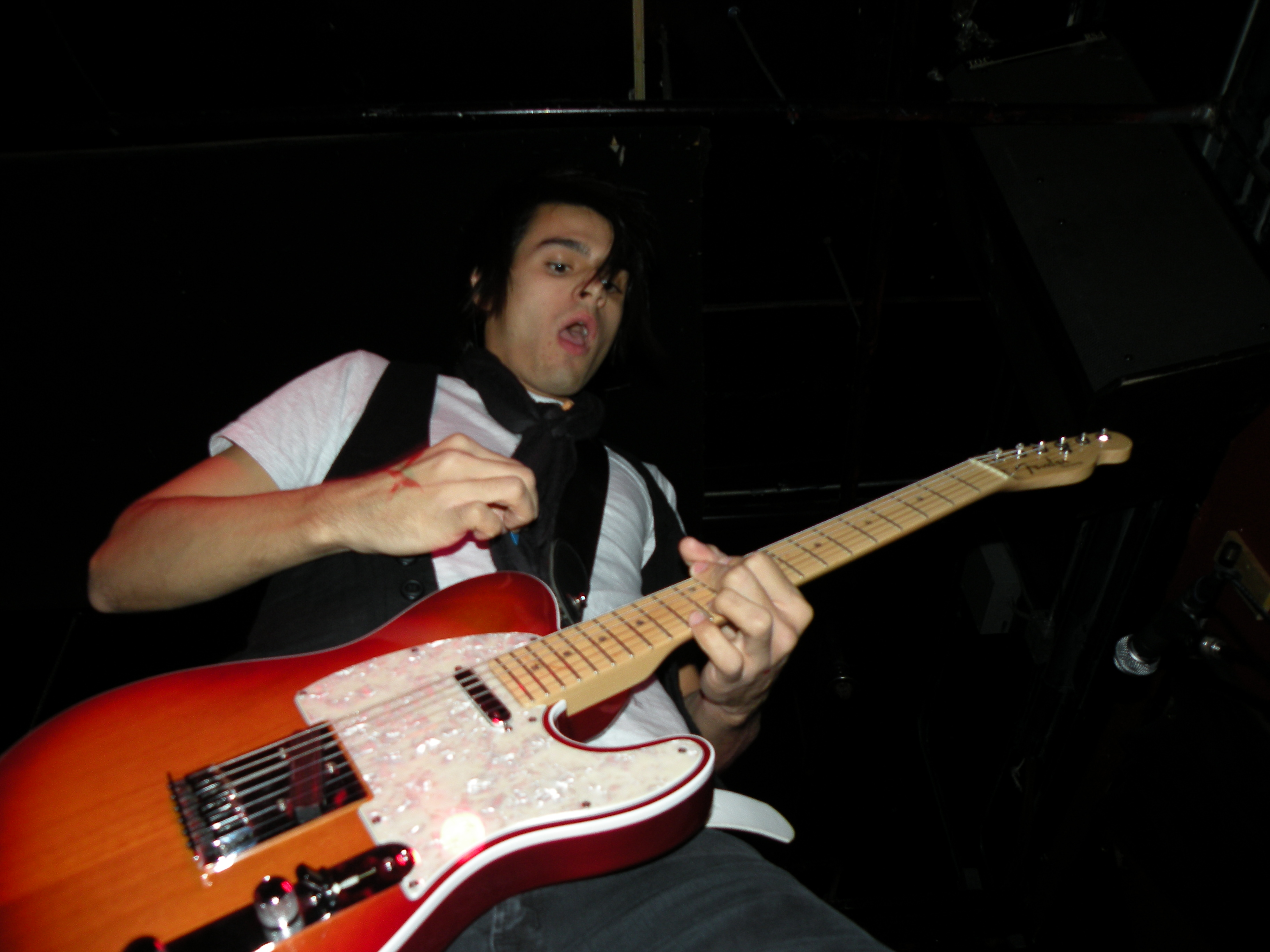 VersaEmerge at the Middle East Upstairs in Cambridge, MA on 10/12/2008